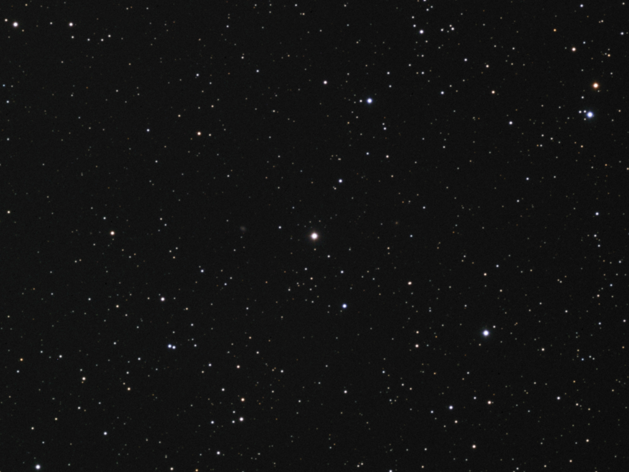 HIP 32916 in optical light